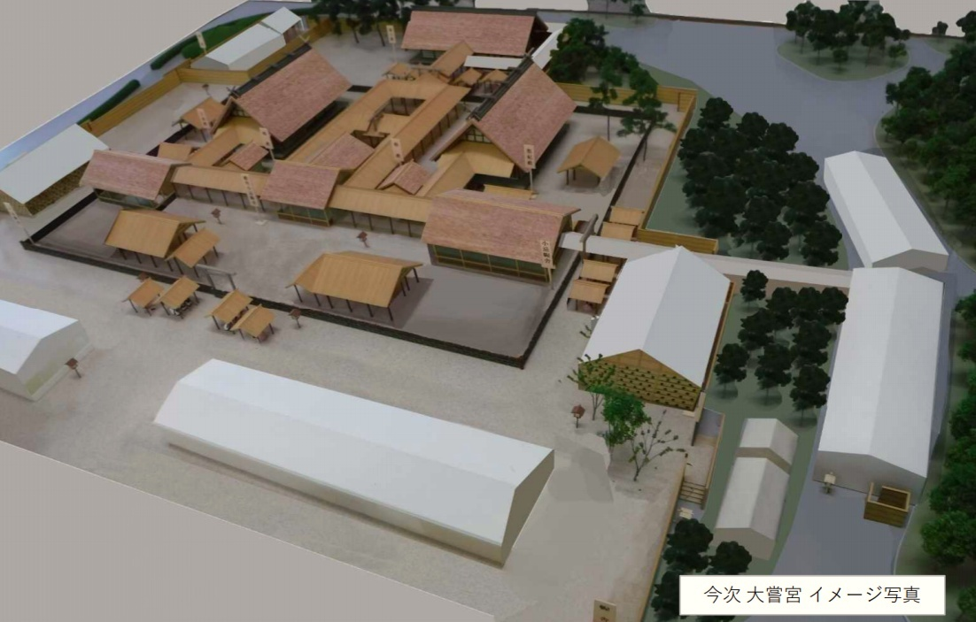 Buildings of Daijōsai-ceremony. I edited a PDF-file from